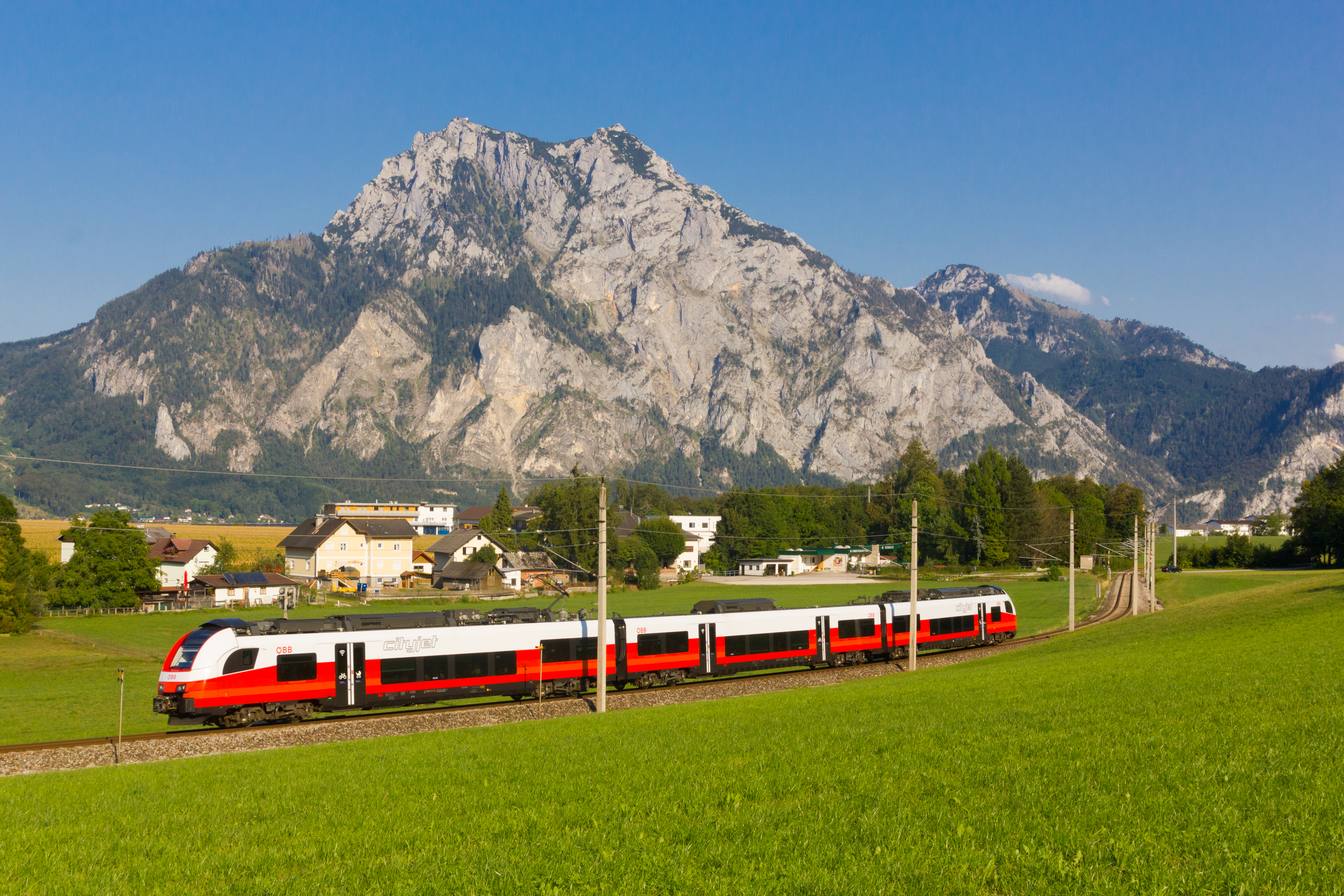 A train on Salzkammergut Railway near the station of Altmünster.